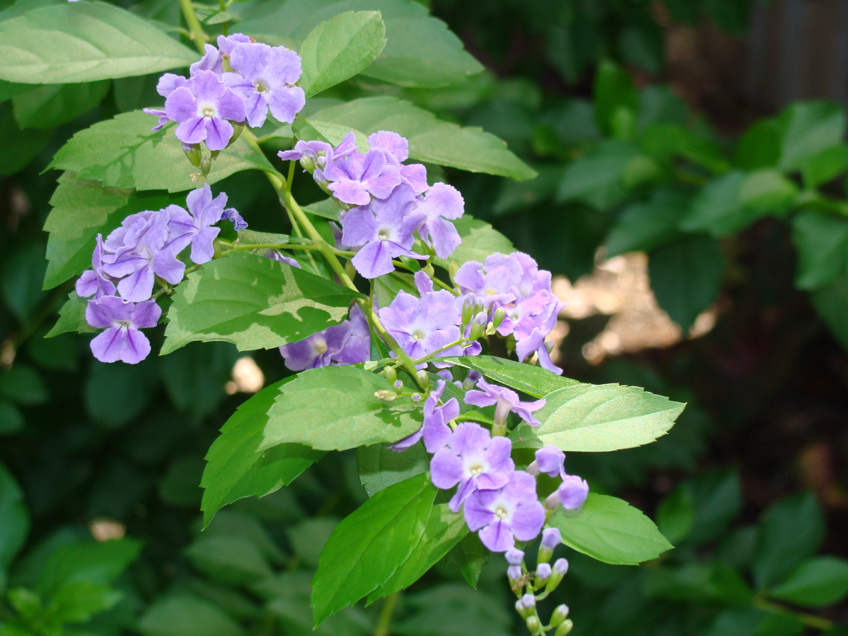 Duranta erecta, the Golden Dewdrop. Photo taken in front of residence in Gainesville, Florida